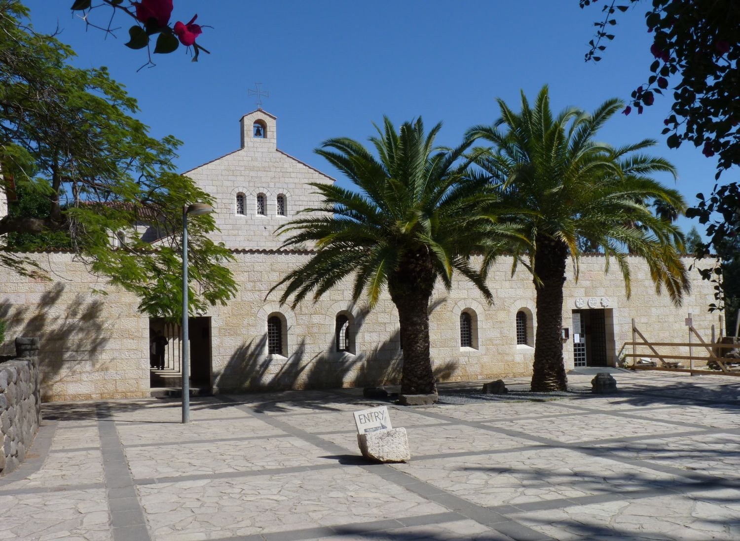 Church of the Multiplication (of the Loaves and Fishes), Tabgha, Sea of Galilee, Israel